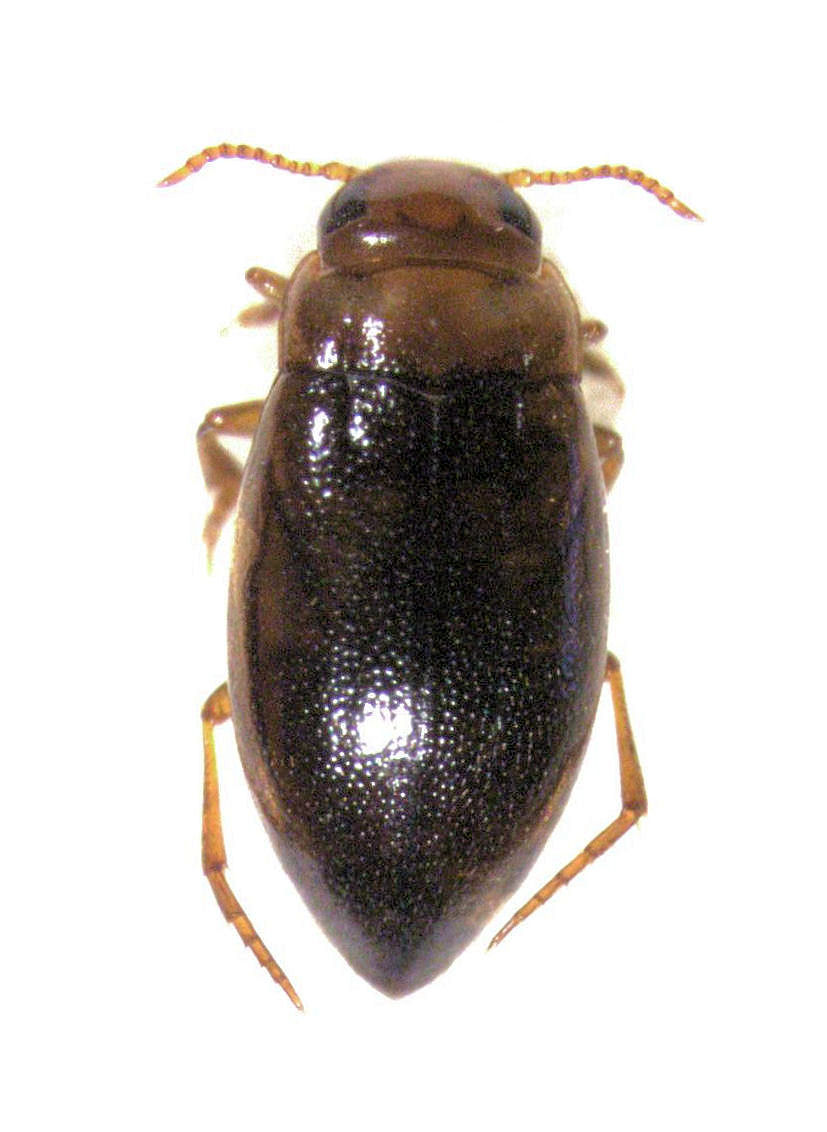 adult Liodessus plicatus. Western Springs Park, in small pond (36°52′04″S 174°43′14″E / 36.867676°S 174.720528°E), Auckland, New Zealand, 9 Jan 2011, S.E. Thorpe